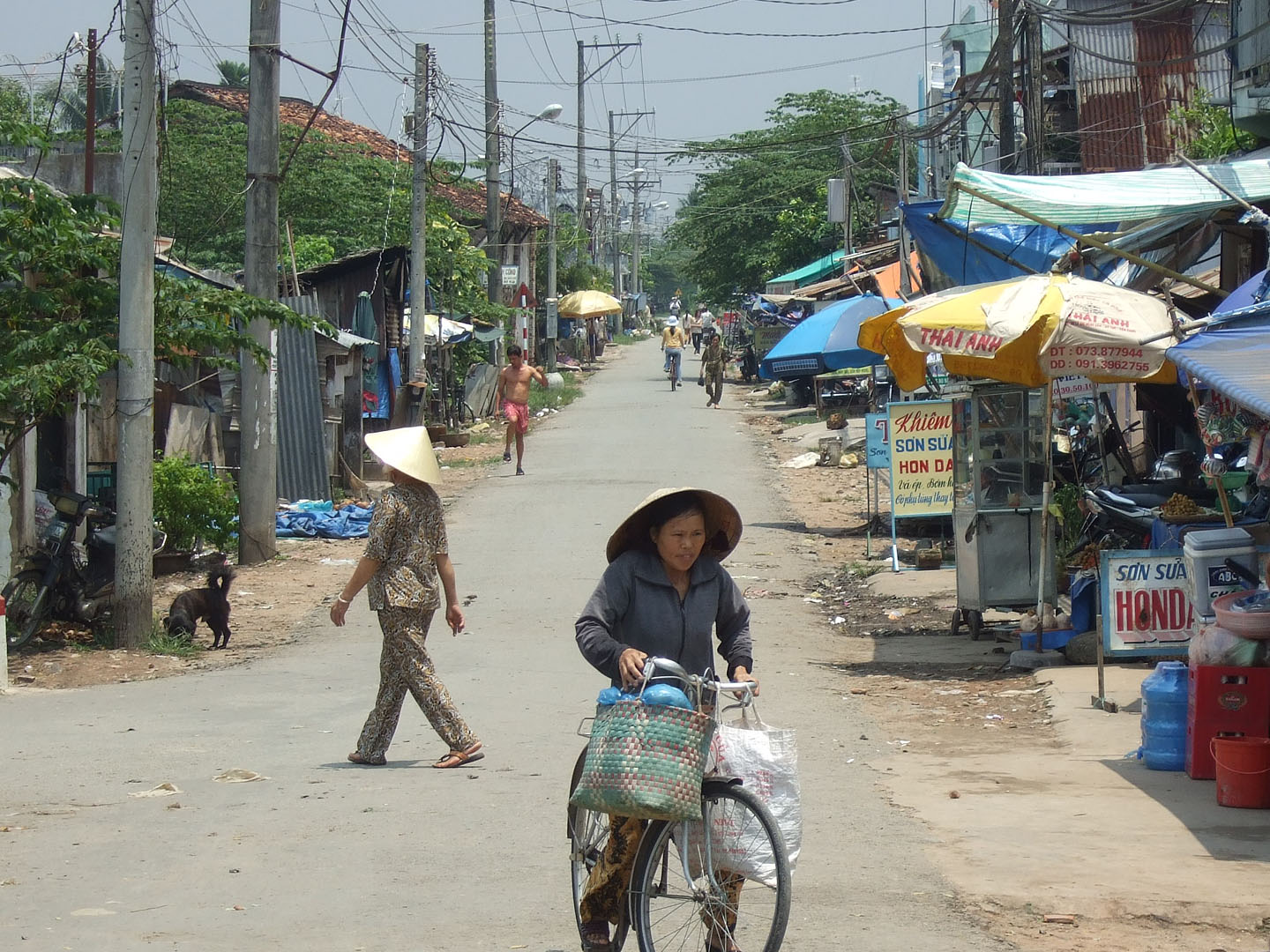 A landscape of Ben Tre Vietnam